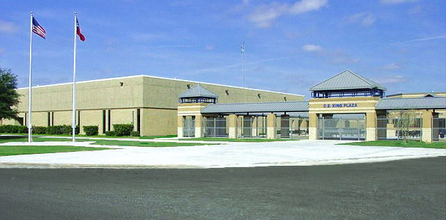 Picture of C.E. King High School, part of Sheldon Independent School District in Houston, Texas.